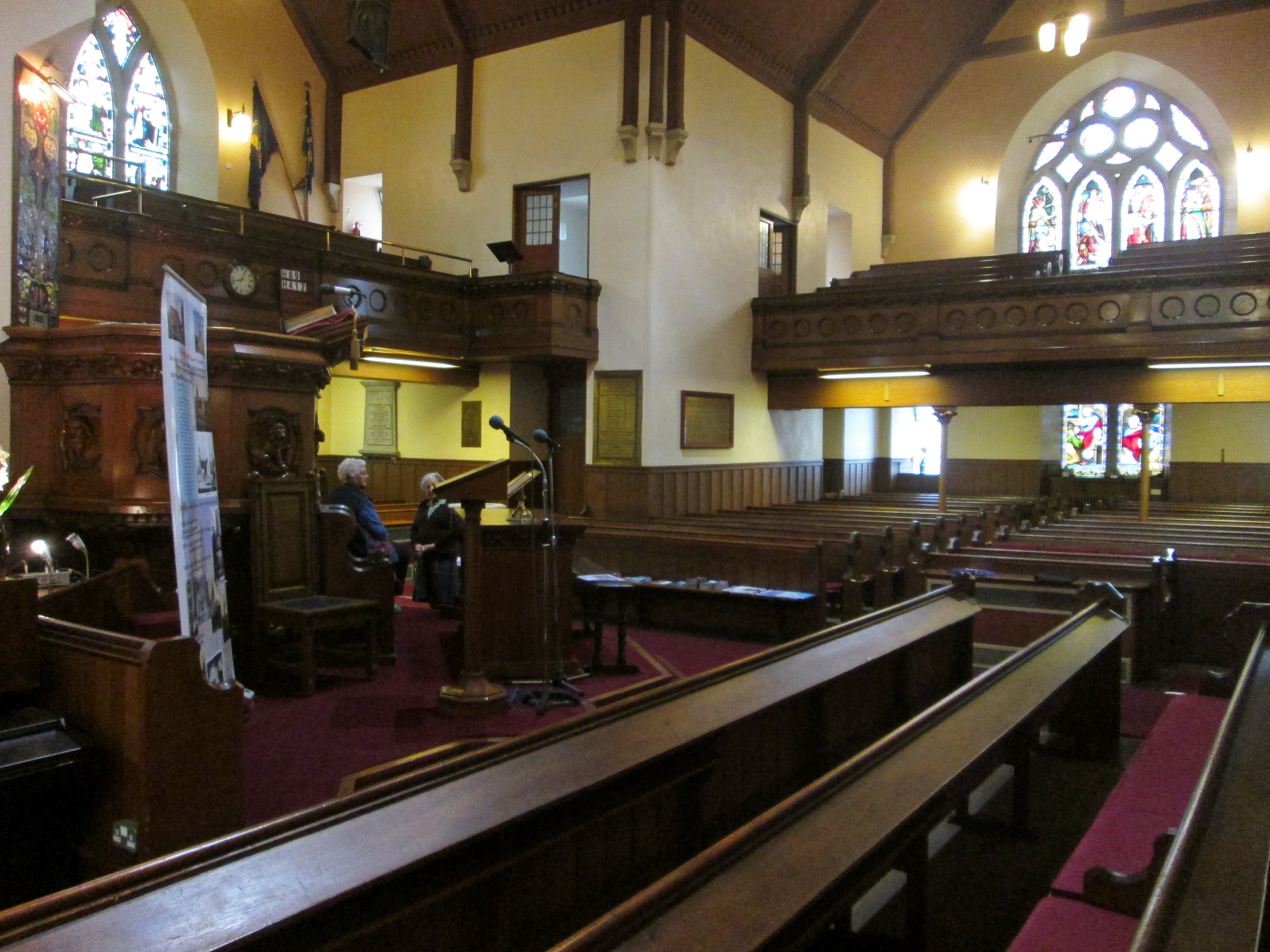 he Old West Kirk in Greenock, view up the nave, with the Cartsburn Aisle on the left, looking towards the Farmer's Loft, with the Laird's Loft to the left. The pulpit is to the left of the photo.